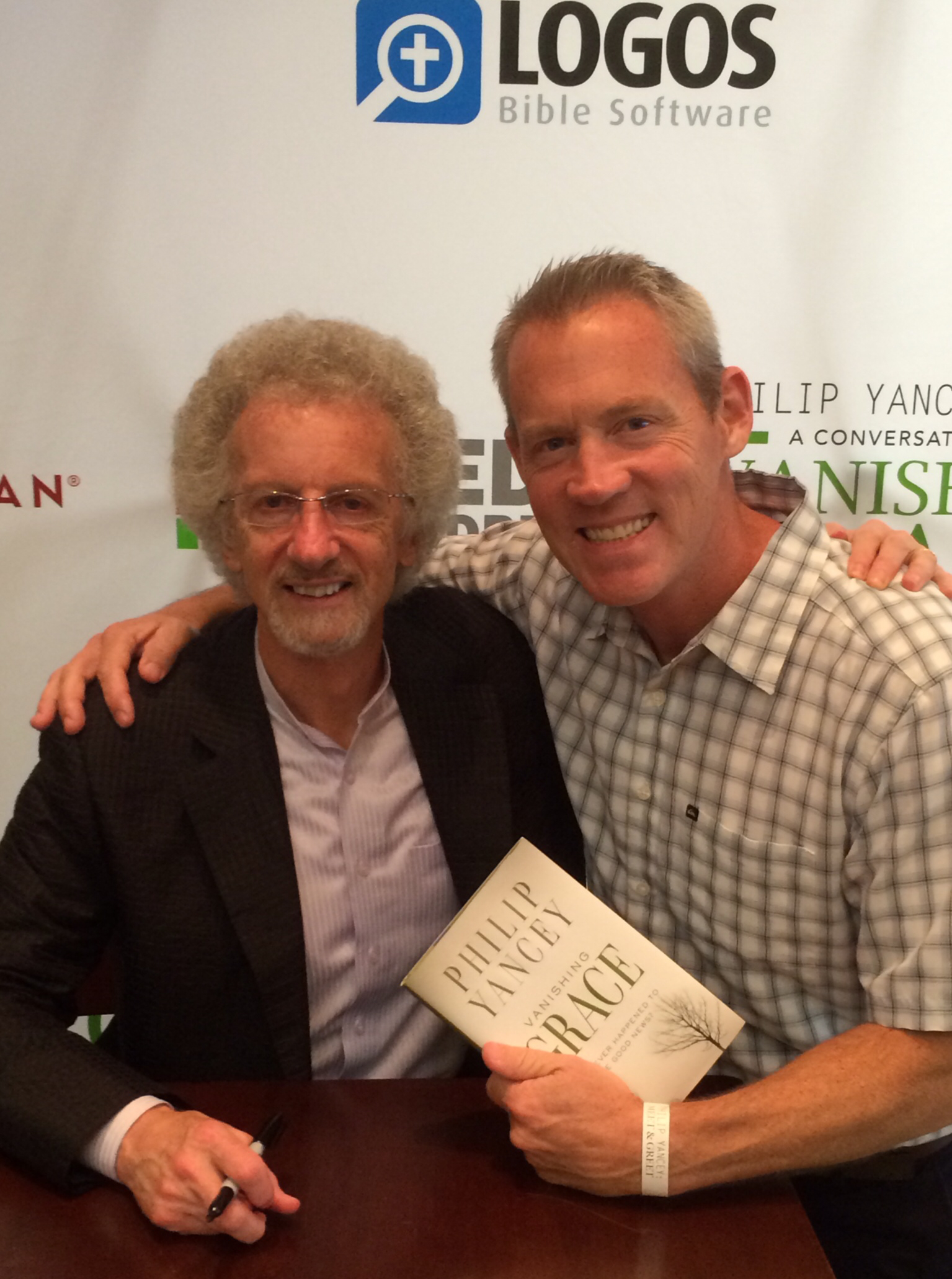 Philip Yancey (left) with a fan (right) at a book signing in San Diego County, California, United States